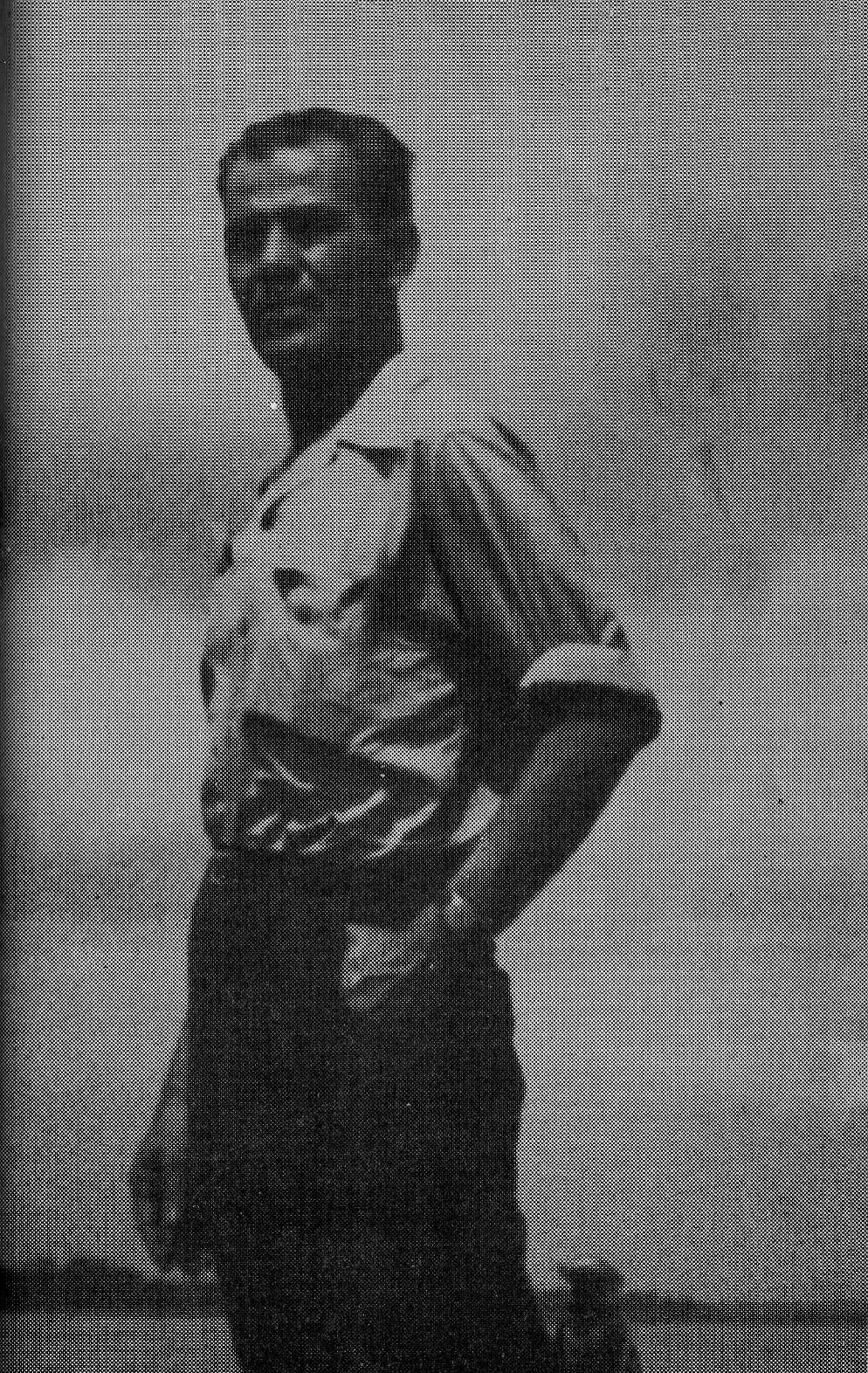 Imagen presente en Erotismo al rojo blanco de Elías Nandino